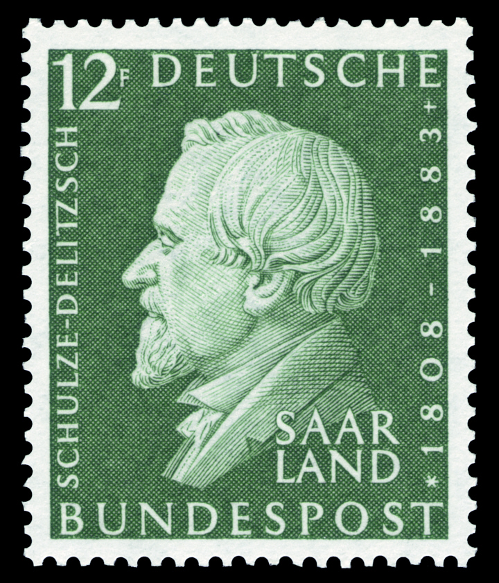 150th day of birth of Hermann Schulze-Delitzsch (1808-1883) Graphics by Hermann Eidenbenz Ausgabepreis: 12 Saar-Franken First Day of Issue / Erstausgabetag: 29. August 1958 Michel-Katalog-Nr: 438 (Saarland)